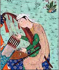 Painting of Azada in The Shahnama of Shah Tahmasp